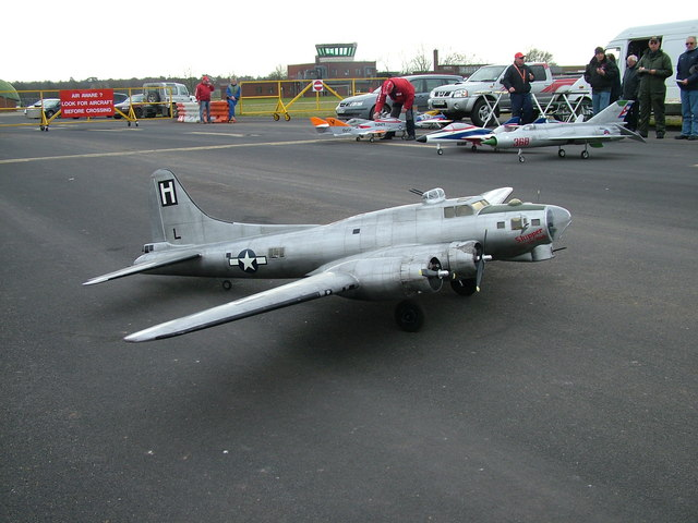 Press day line up at Honington:A large B17 Flying Fortress, and a gas turbine powered Mig, are among the model aircraft displaying for the press to publicise the large model aircraft show at Rougham on May 2nd and 3rd 2009. In the background and in the next square is the control tower of this airfield that dates back to WW2.